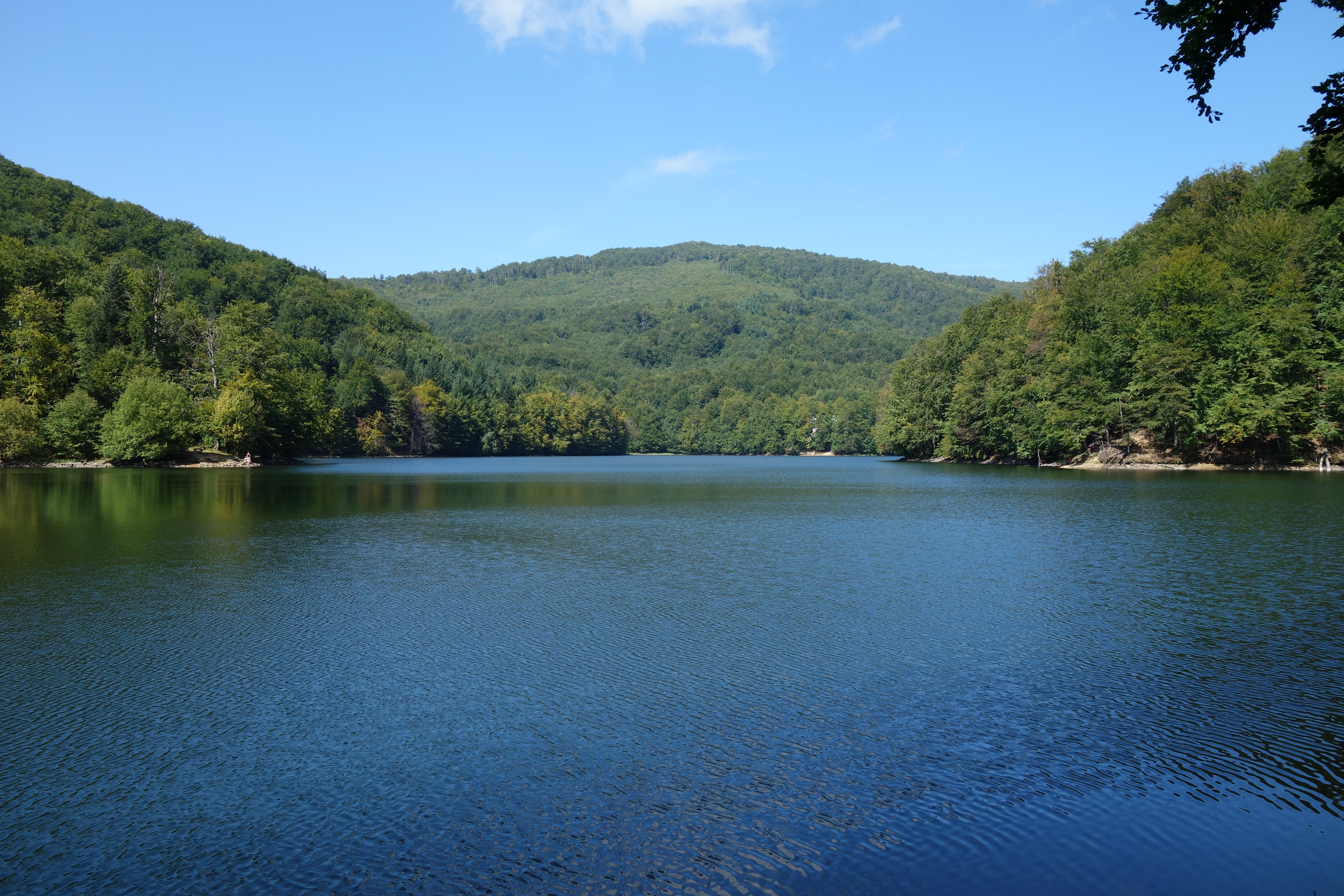 Sea Eye Lake and peak Sninský kameň This is a photography of Natura 2000 protected area with ID SKUEV0209